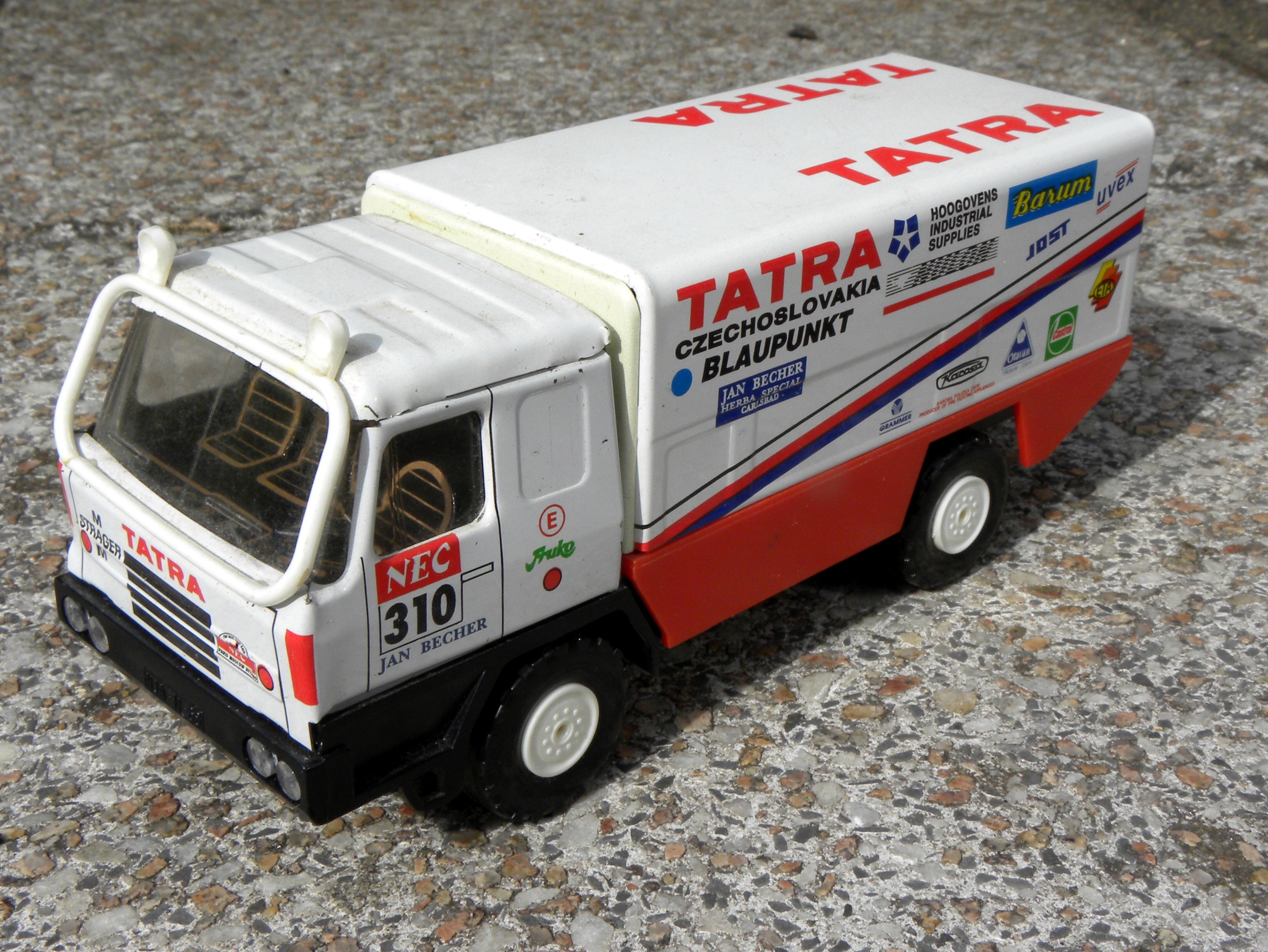 Tatra T 815 top pressed tin underside plastic production year unknown